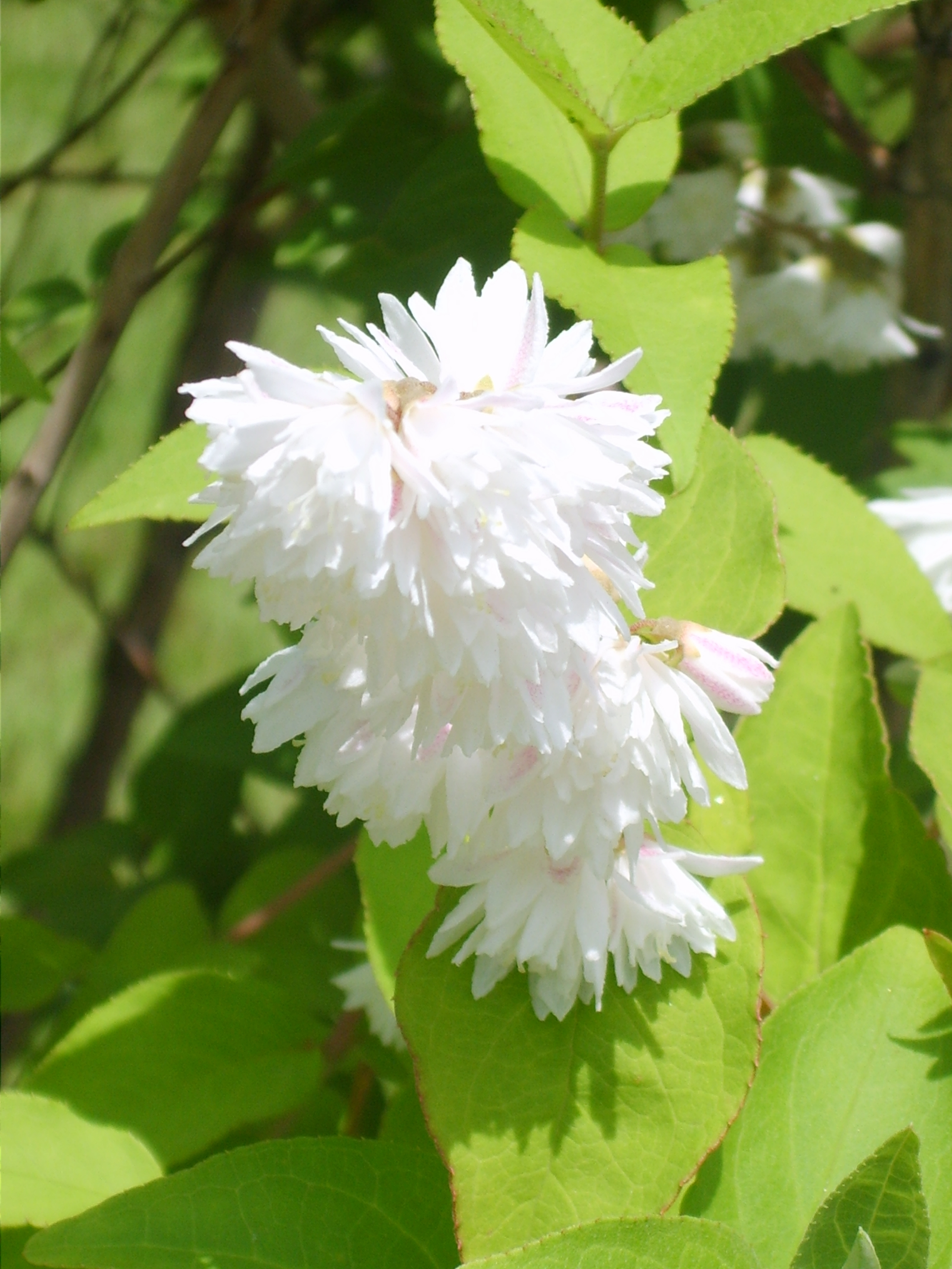 Flowerage of Deutzia crenata for. plena in Bupyung, Korea